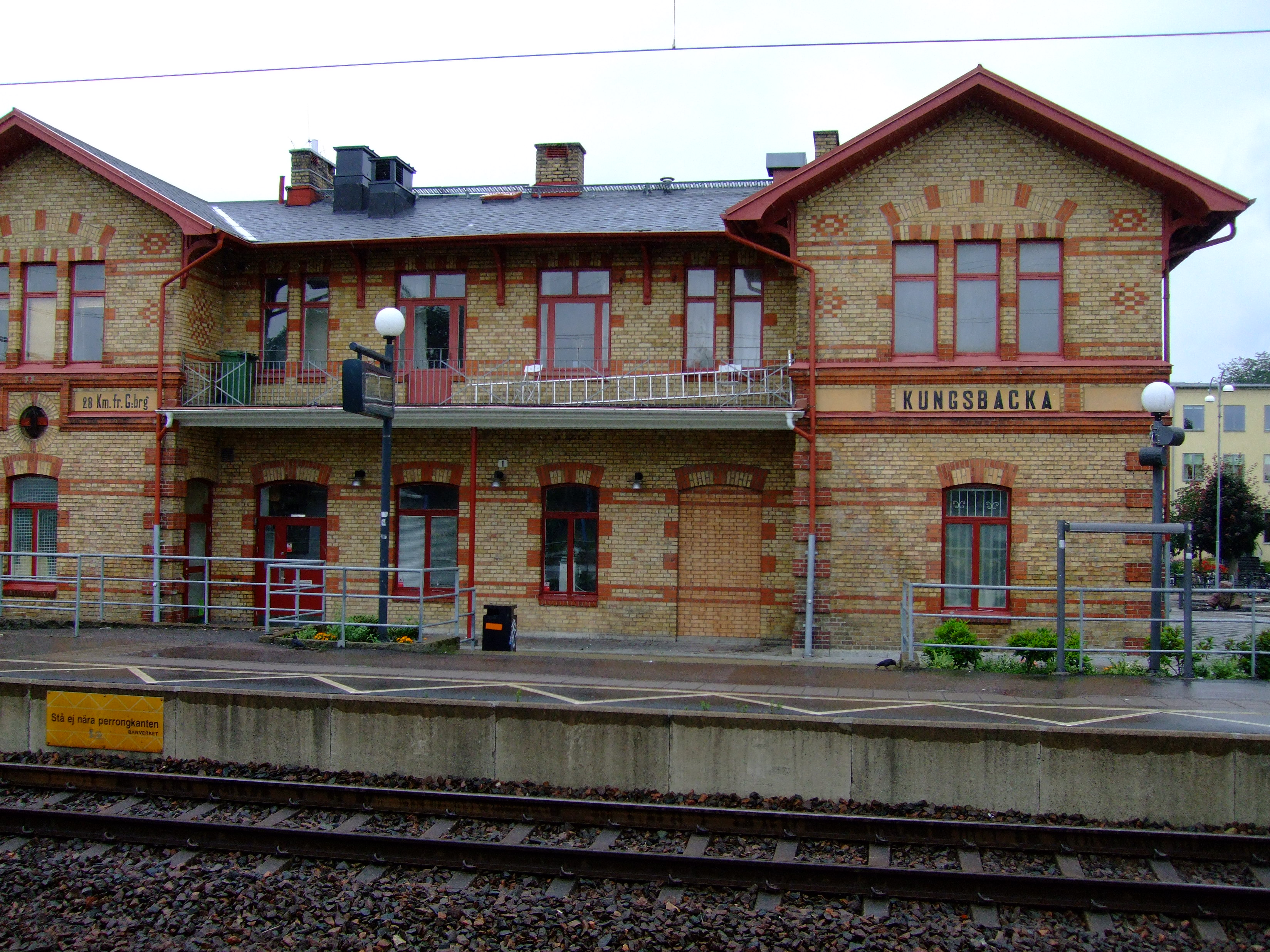 Kungsbacka Railway Station.